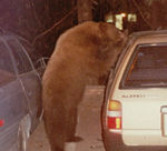 Bear breaking into car at Yosemite National Park